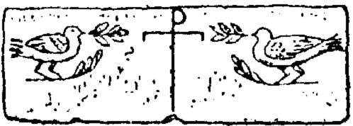 Symbols from catacombs